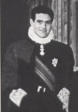 Photography the Marquis Giulio Sacchetti, Member of Noble Family of Fiorence Sacchetti